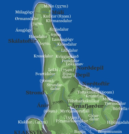 Northern part of Borðoy/ Faroe Islands